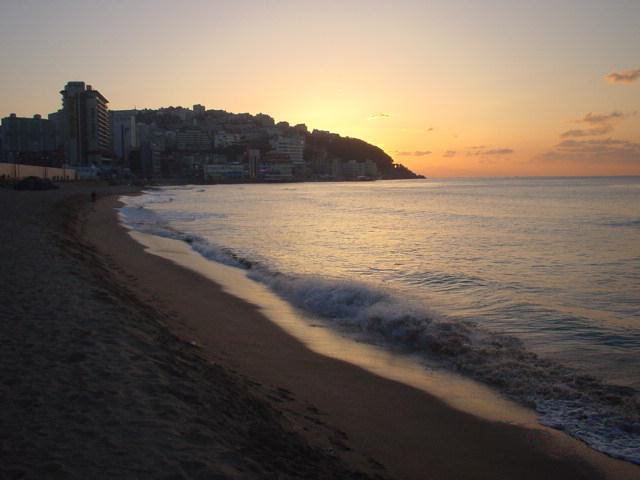 Haeundae beach, Busan, at dawn Photo taken and uploaded by Ian Ruxton (Historian)